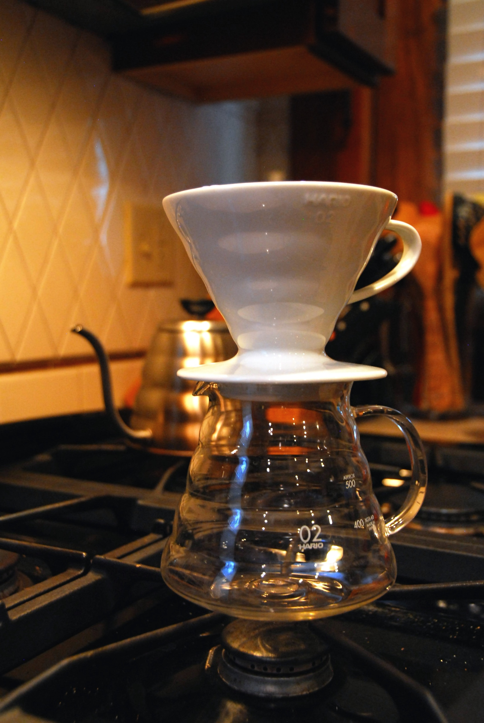 Hario V60 and Buono kettle